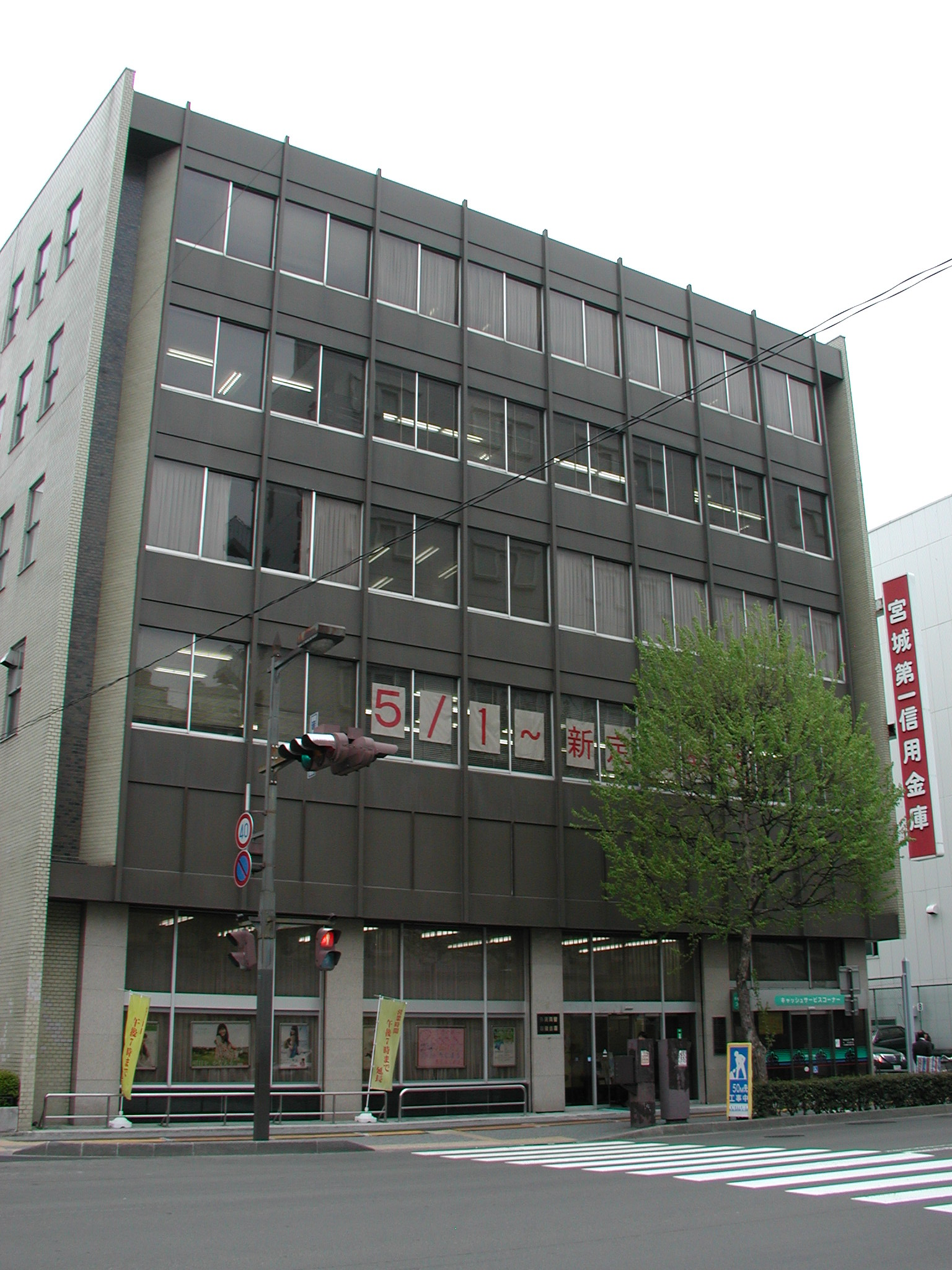 Miyagi-Daiichi Shinkin Bank Head Shops